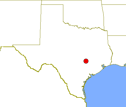 Location map of Serbin, Texas.